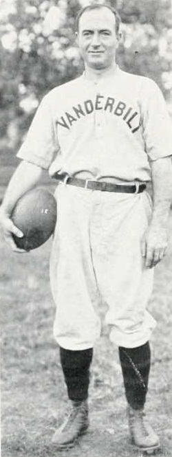 Dan McGugin